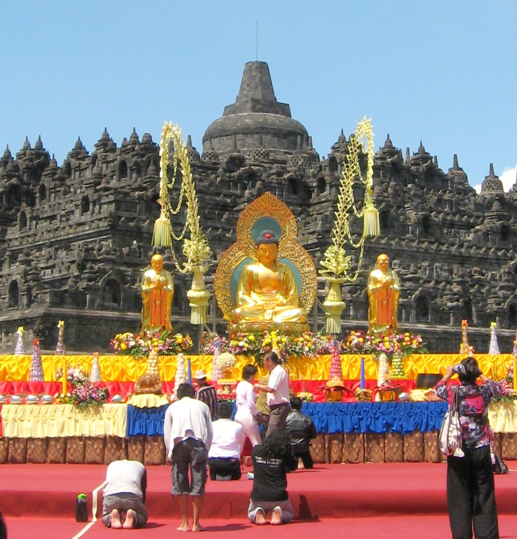 Borobudur on Vesak Day 2011